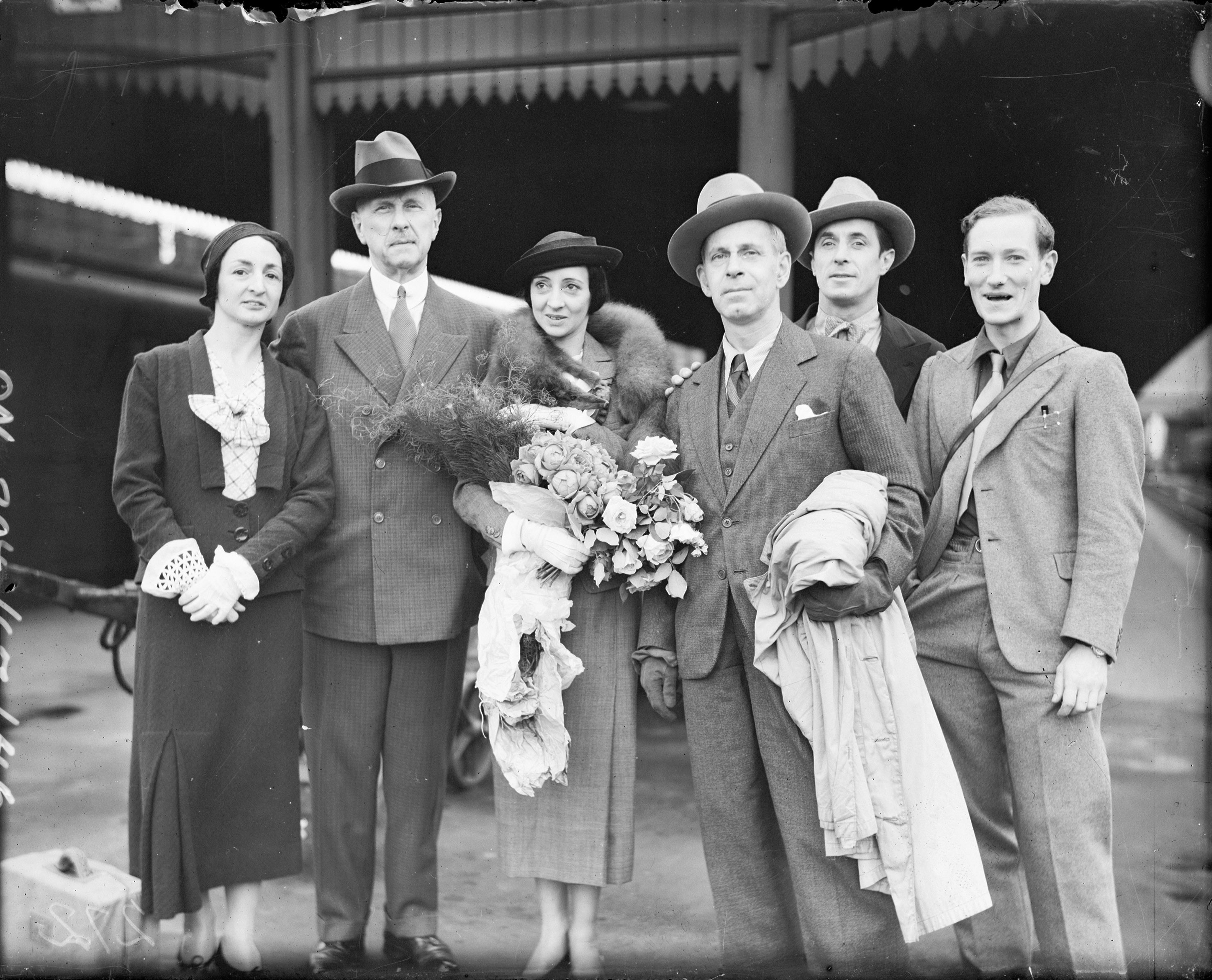 Spessivtzeva was billed as Spessiva for "phonic simplicity" in Australia, despite being the greatest ballerina of her time. During her tour she showed the first real signs of her later mental illness. Format: Negative Notes: Find more detailed information about this photograph: .au/item/itemDetailPaged.aspx?itemID=402262 Search for more great images in the State Library's collections: .au/search/SimpleSearch.aspx From the collection of the State Library of New South Wales